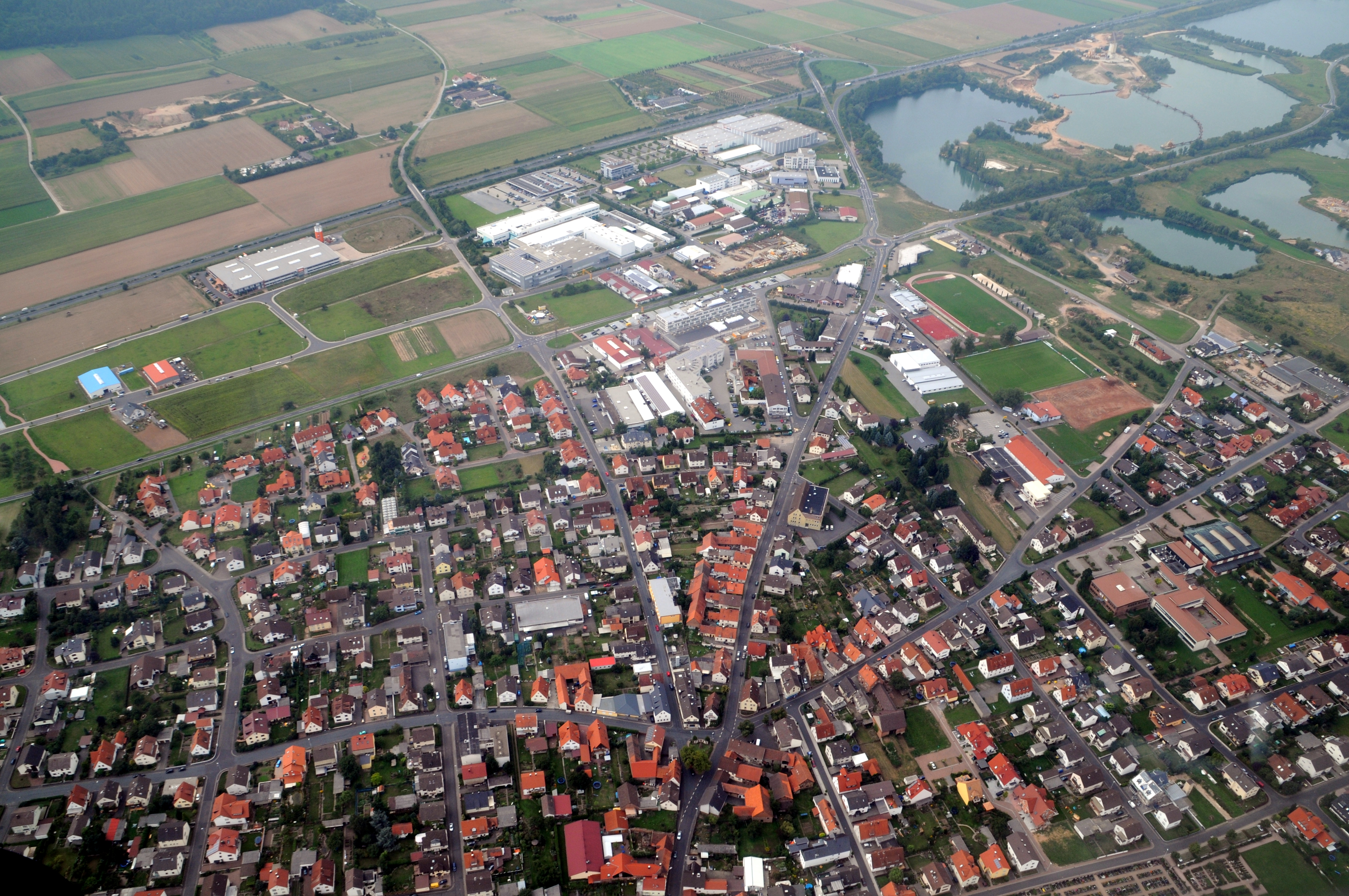 Großwallstadt, Bavaria, Germany, aerial photograph